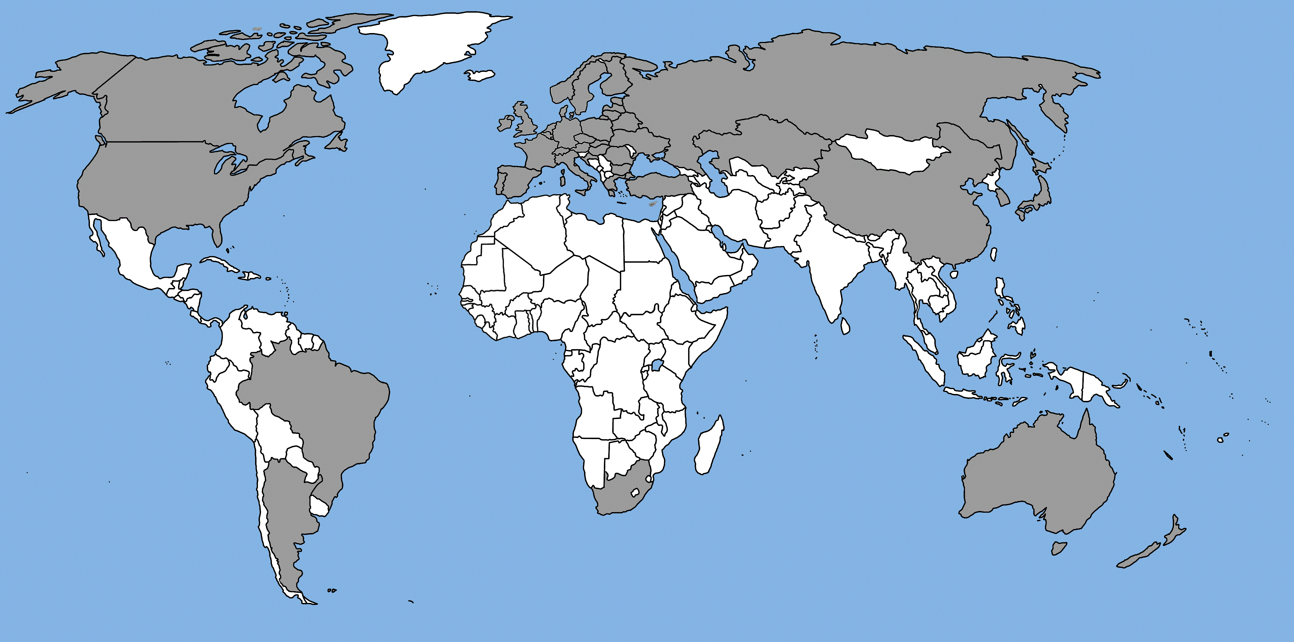 Map of the Members States of the Nuclear Suppliers Group